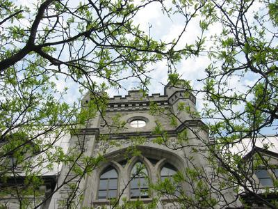 Pic of Lisgar C.I, Ottawa, Ont, June 2003; photographer Thorfinn Stainforth; Category:Designated heritage properties in Ottawa